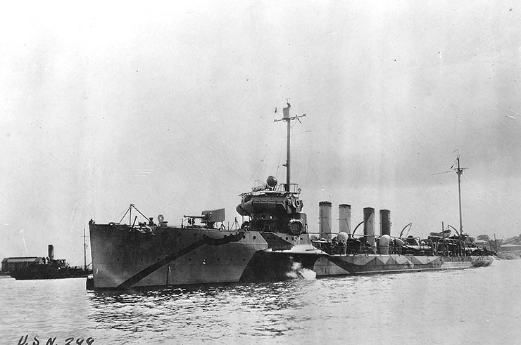 The U.S. Navy destroyer USS Conyngham (DD-58) in port, 1918